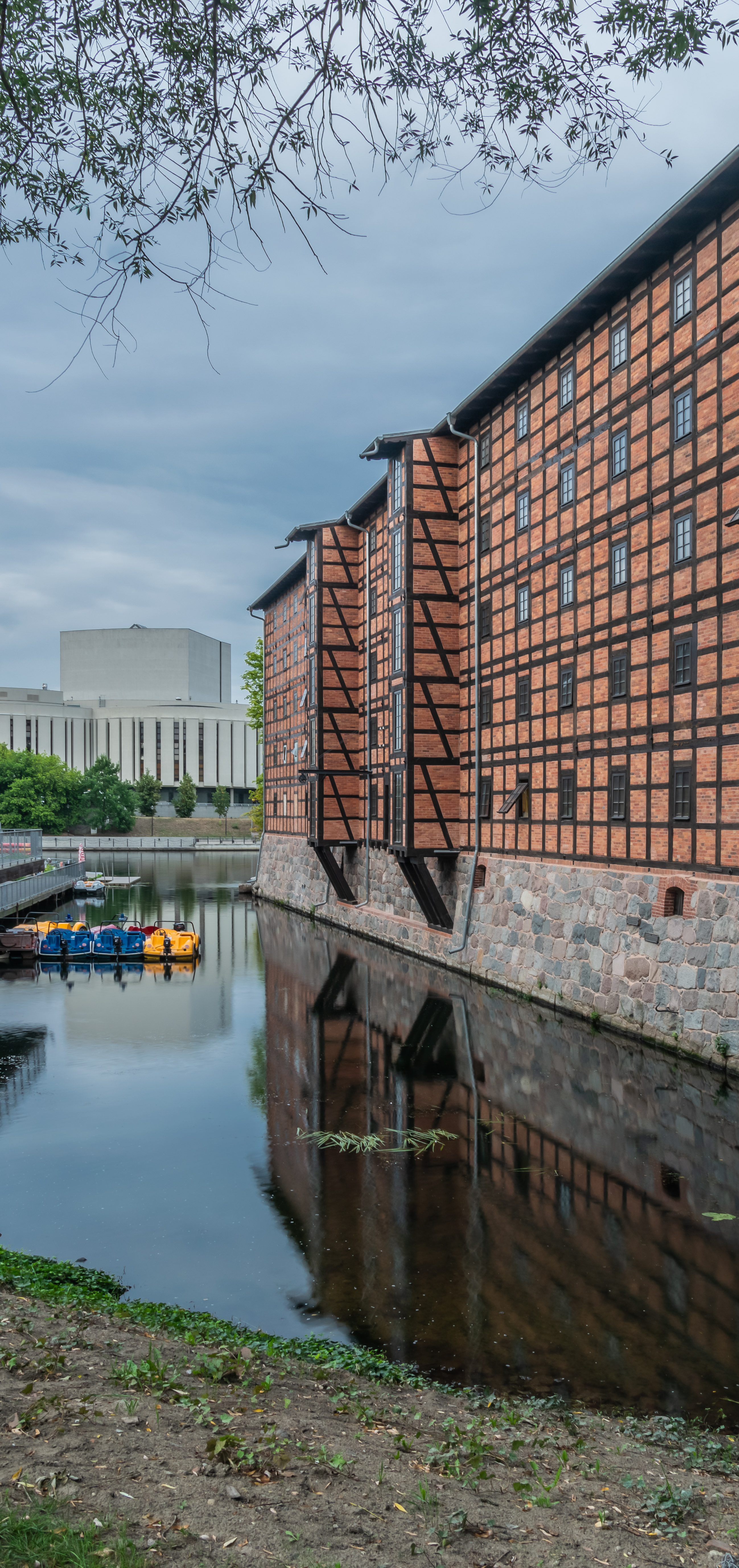 Rother mills in Bydgoszcz, Kuyavian-Pomeranian Voivodeship, Poland